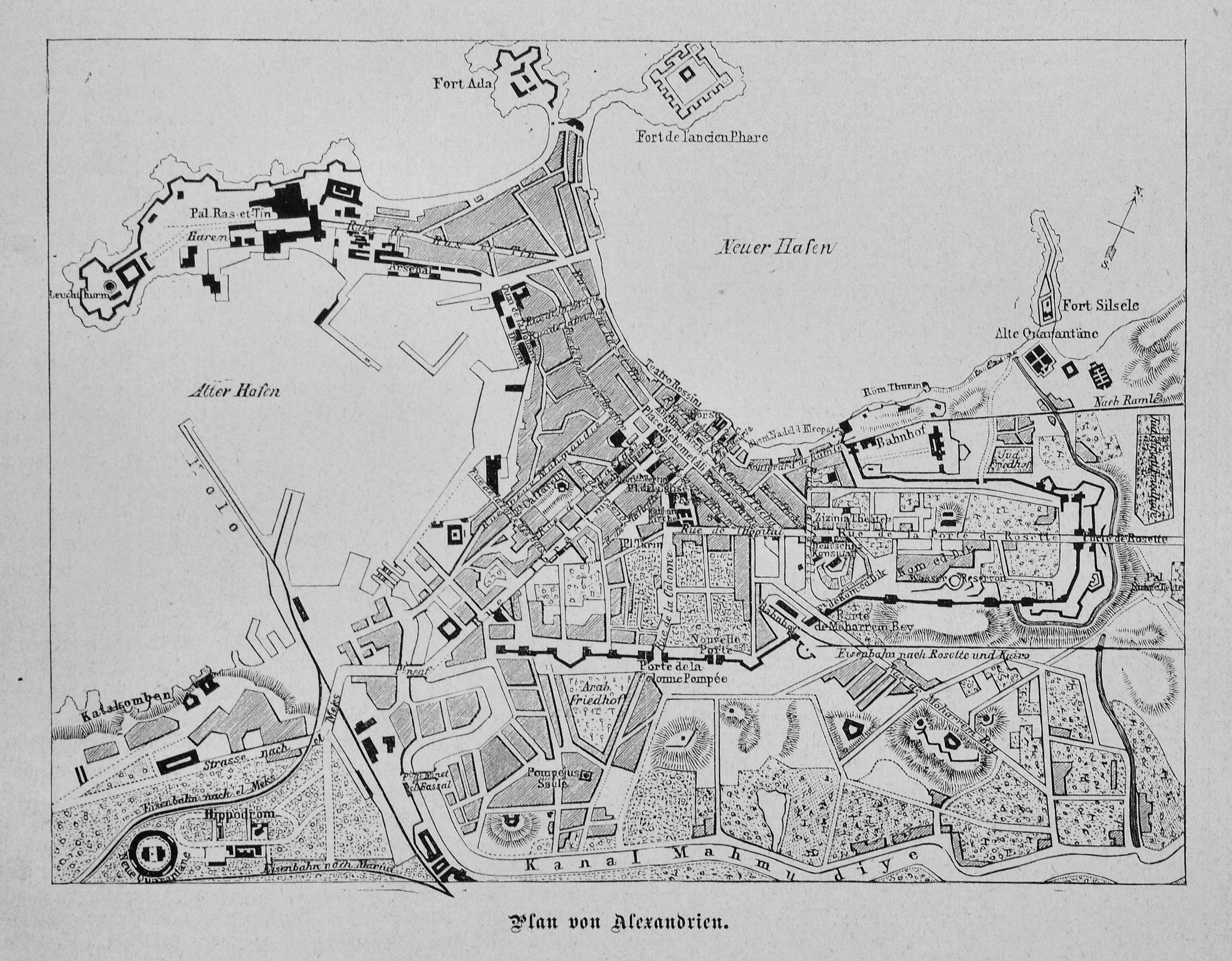 caption: "Plan von Alexandrien."